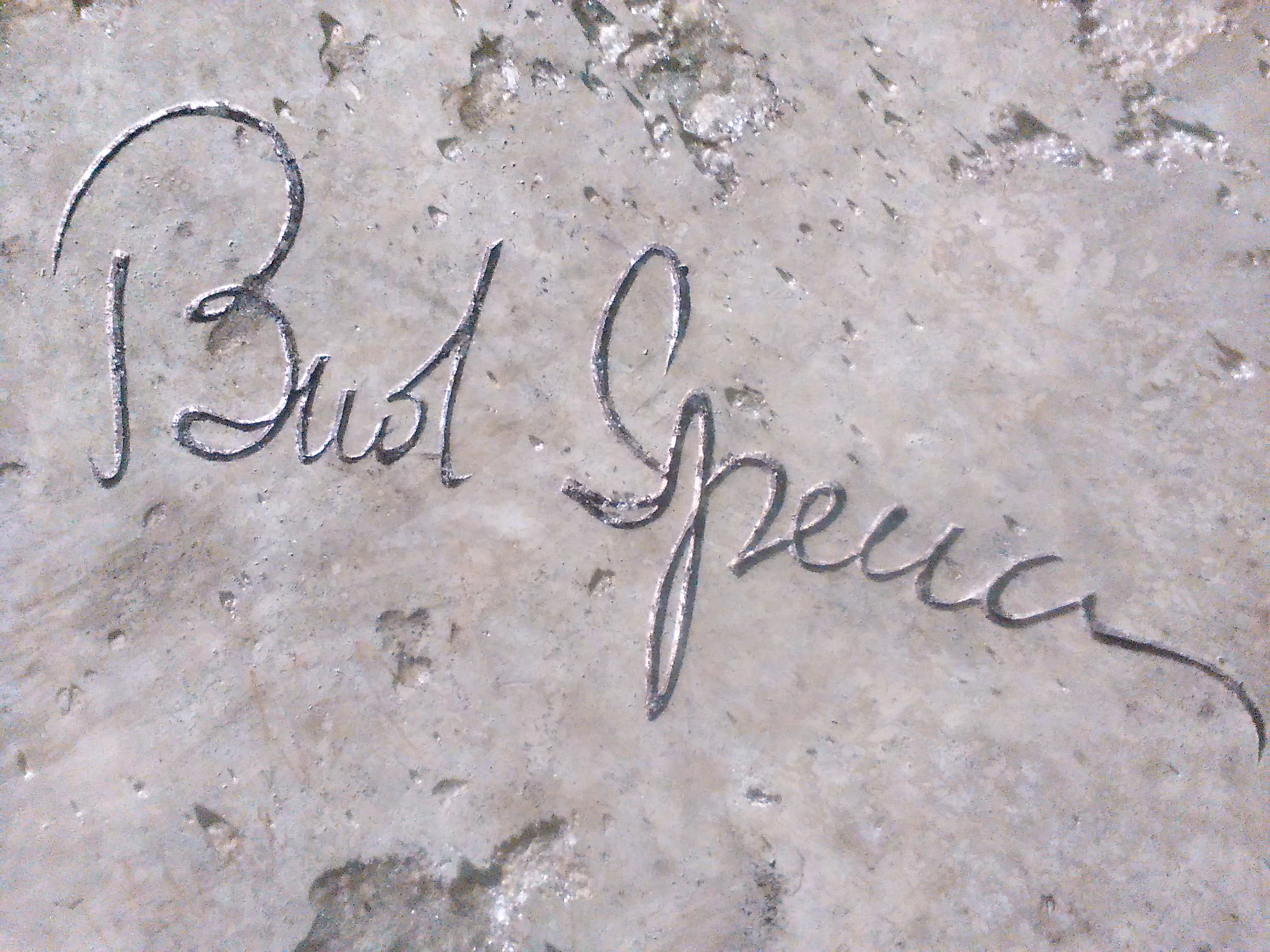 Bud Spencer signature, engraved on the pedestal of his statue in Budapest